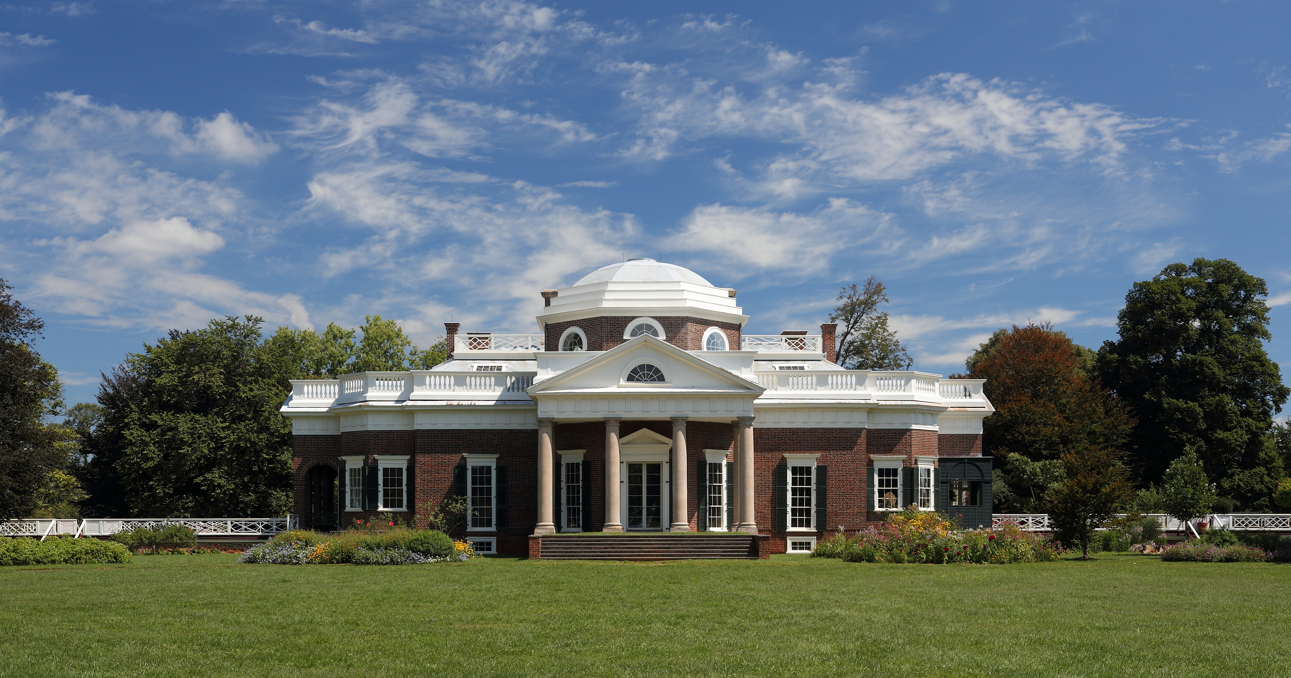 Thomas Jefferson's Monticello, part of UNESCO World Heritage Site Ref. Number 442